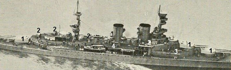 Aerial photograph of HMS Repulse from starboard, with guns labelled : 1 : Twin 15-inch turrets 2 : Triple 4-inch mountings 3 : Starboard single 4-inch mounting 4 : Starboard single 3-inch anti-aircraft mounting